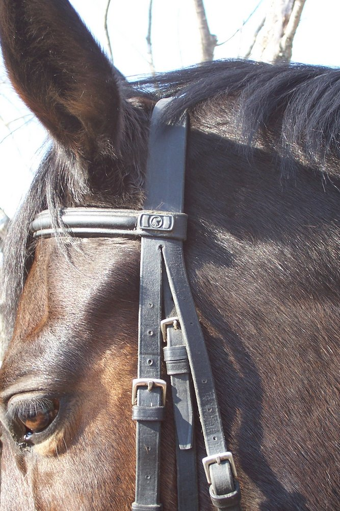 English bridle, particular